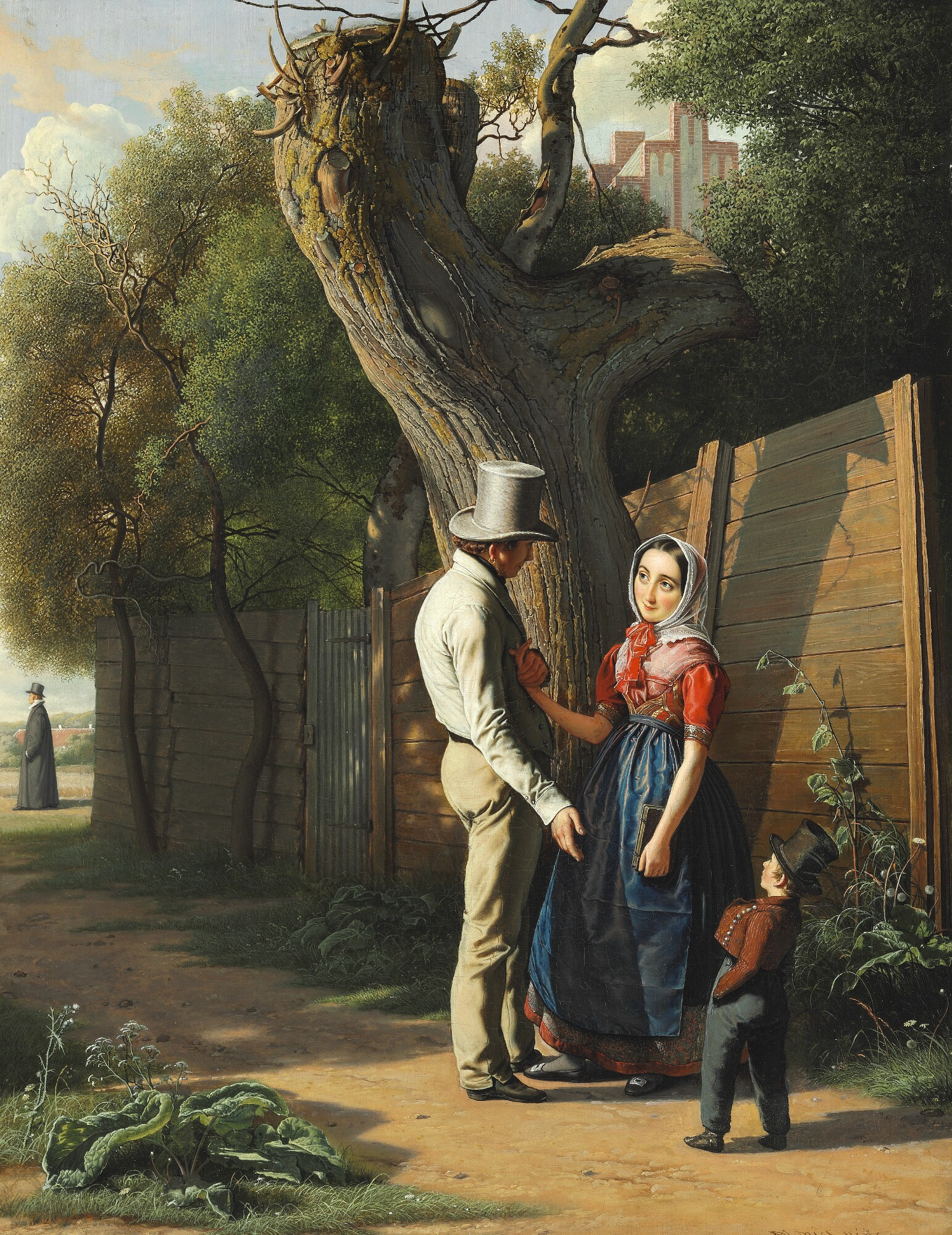 David Monies_A young couple is holding hands under the withered oak tree